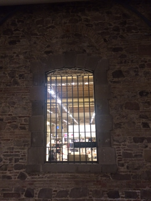 Konak Pier window detail